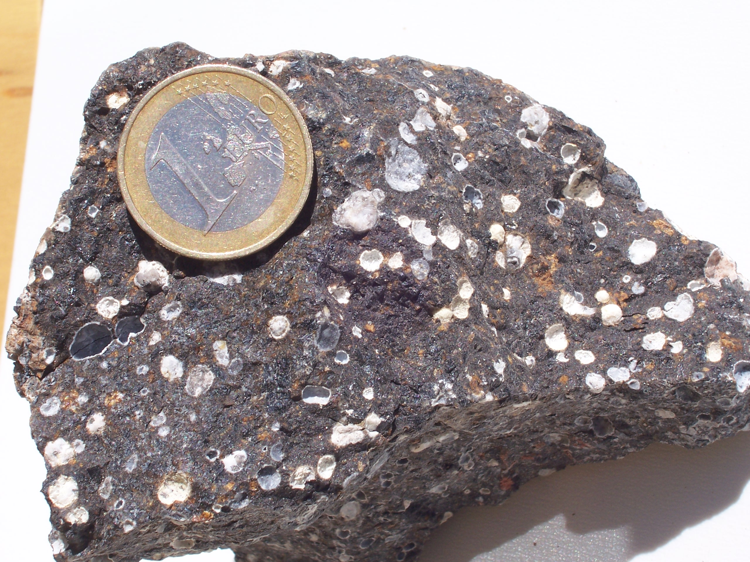 Amygdales/amygdules (filled vesicles) of apatite & quartz in a basaltic lava from the Kaiserstuhl, Southern Germany